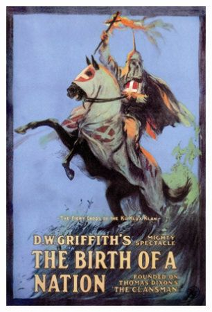 A color poster of the movie The Birth of a Nation